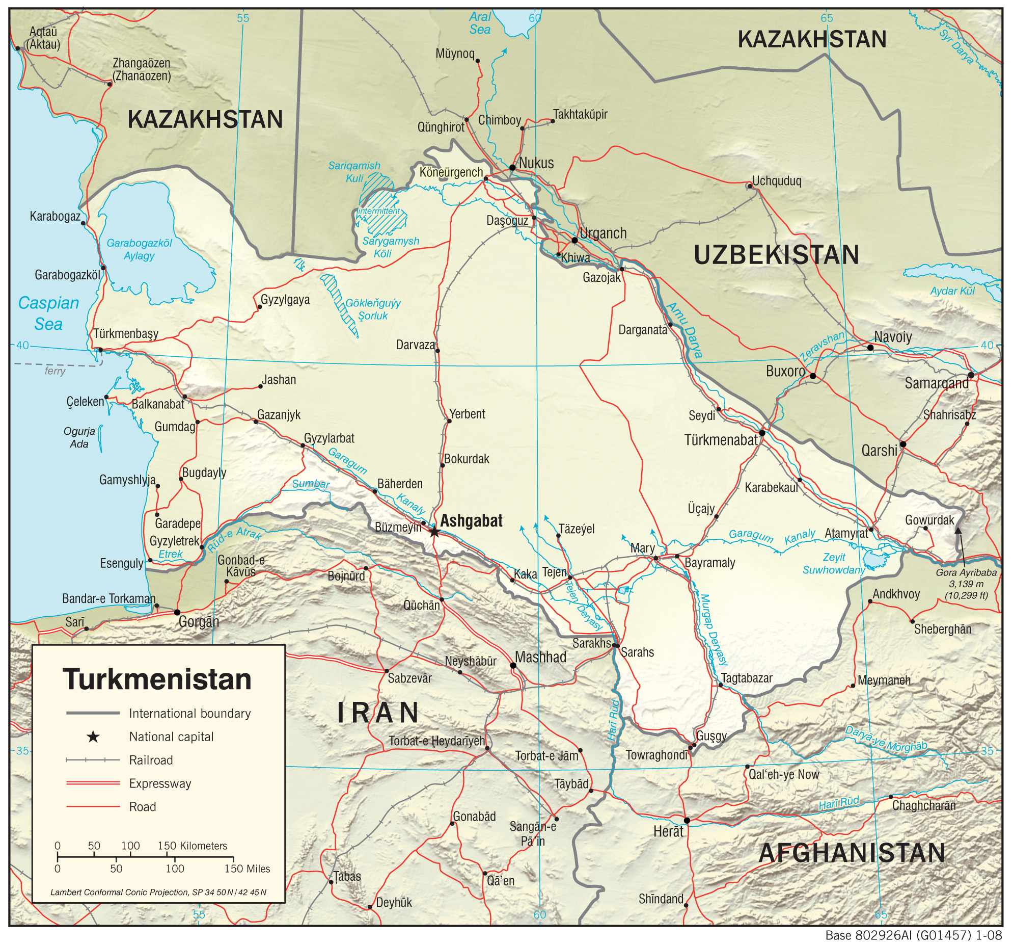 Topographic map of Turkmenistan (shaded relief), 2008.